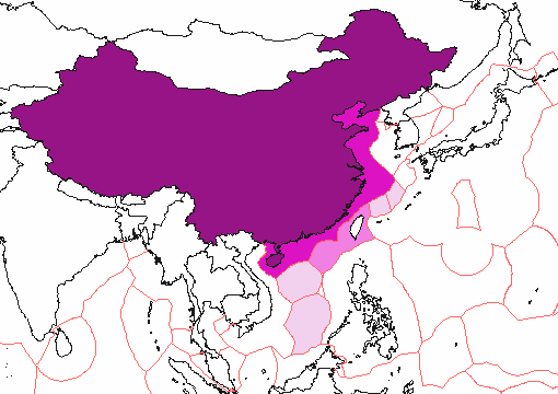 China's Exclusive Economic Zones China's EEZ EEZ claimed by China, disputed by the Republic of China (Taiwan) EEZ claimed by China, disputed by others